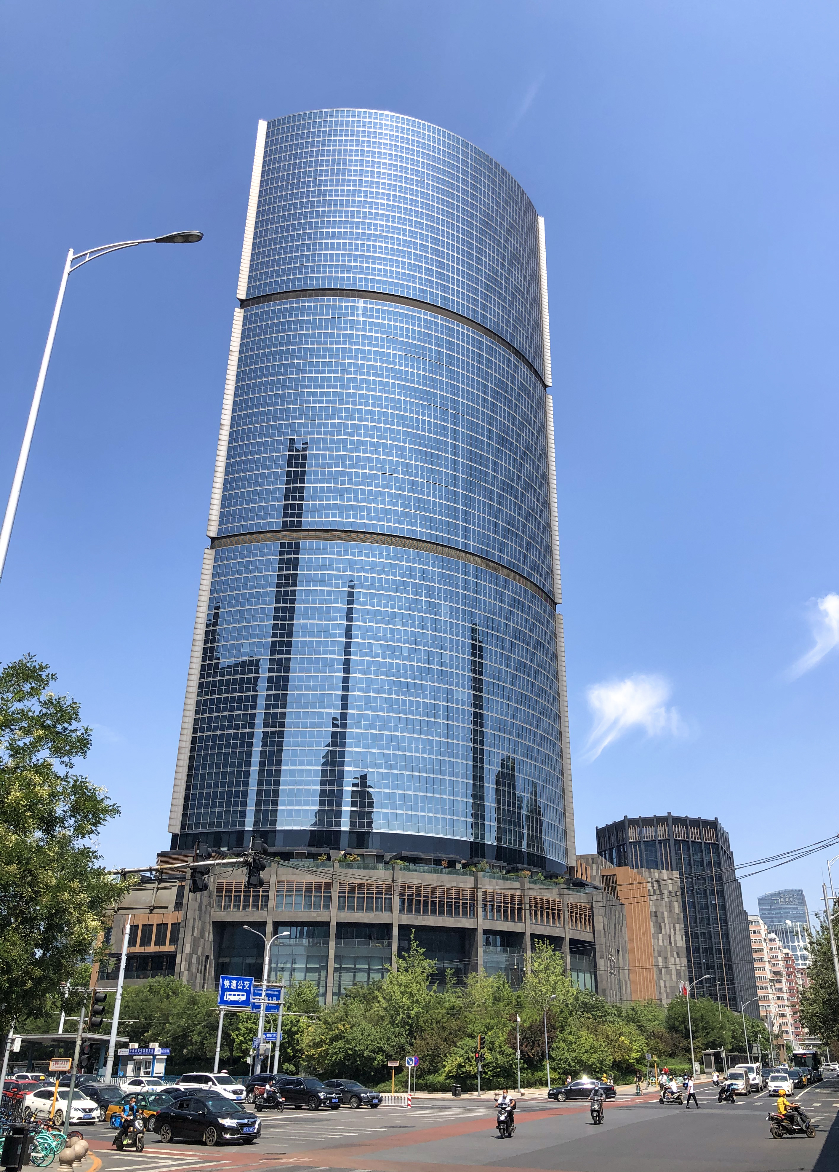 Features Rosewood Beijing, a hotel with 283 rooms and suites.